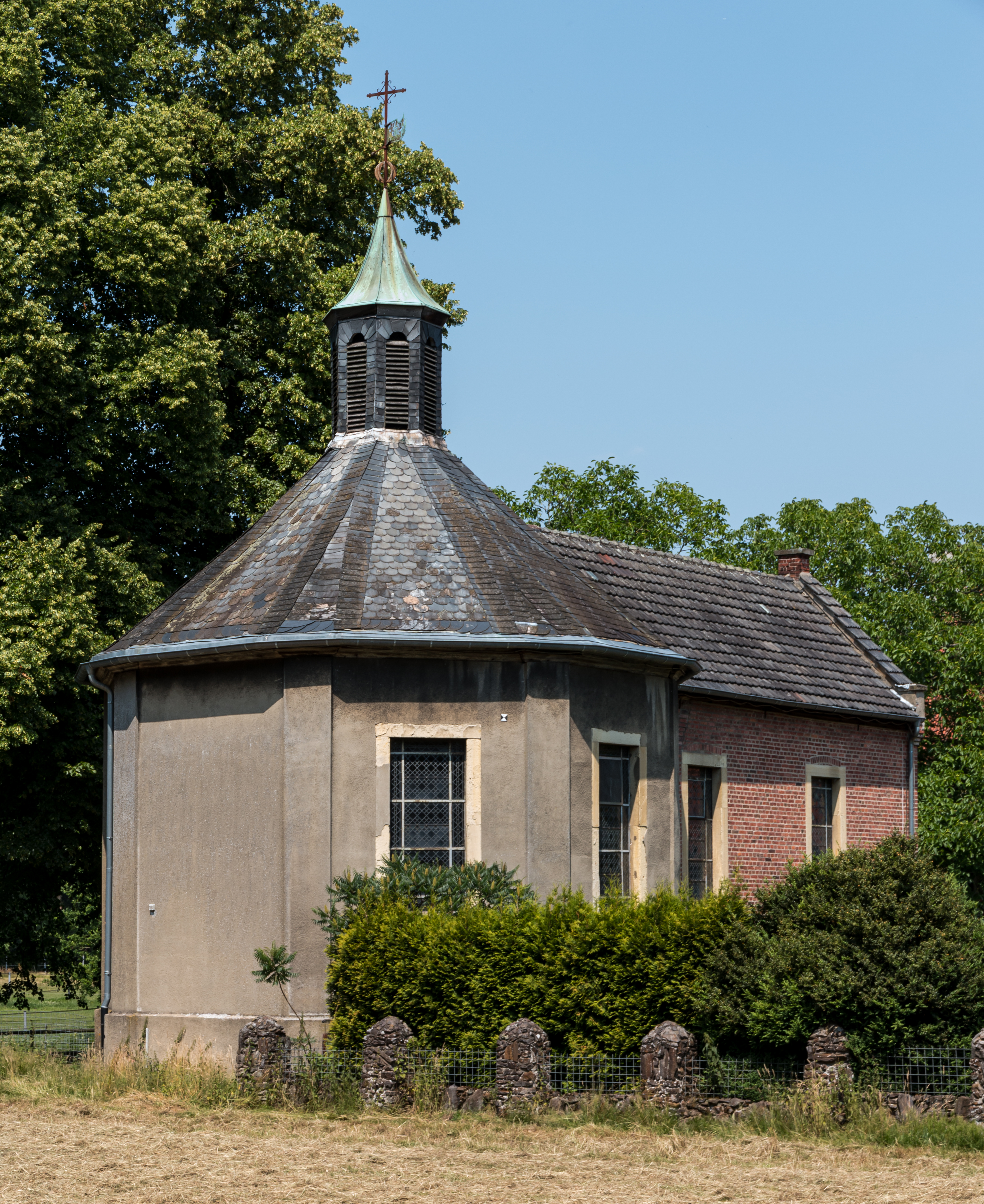 Lady chapel at the Visbeck Manor in the Dernekamp hamlet, Kirchspiel, Dülmen, North Rhine-Westphalia, Germany This image shows a heritage building in Germany, located in the North Rhine-Westphalian city Dülmen (no. 35).